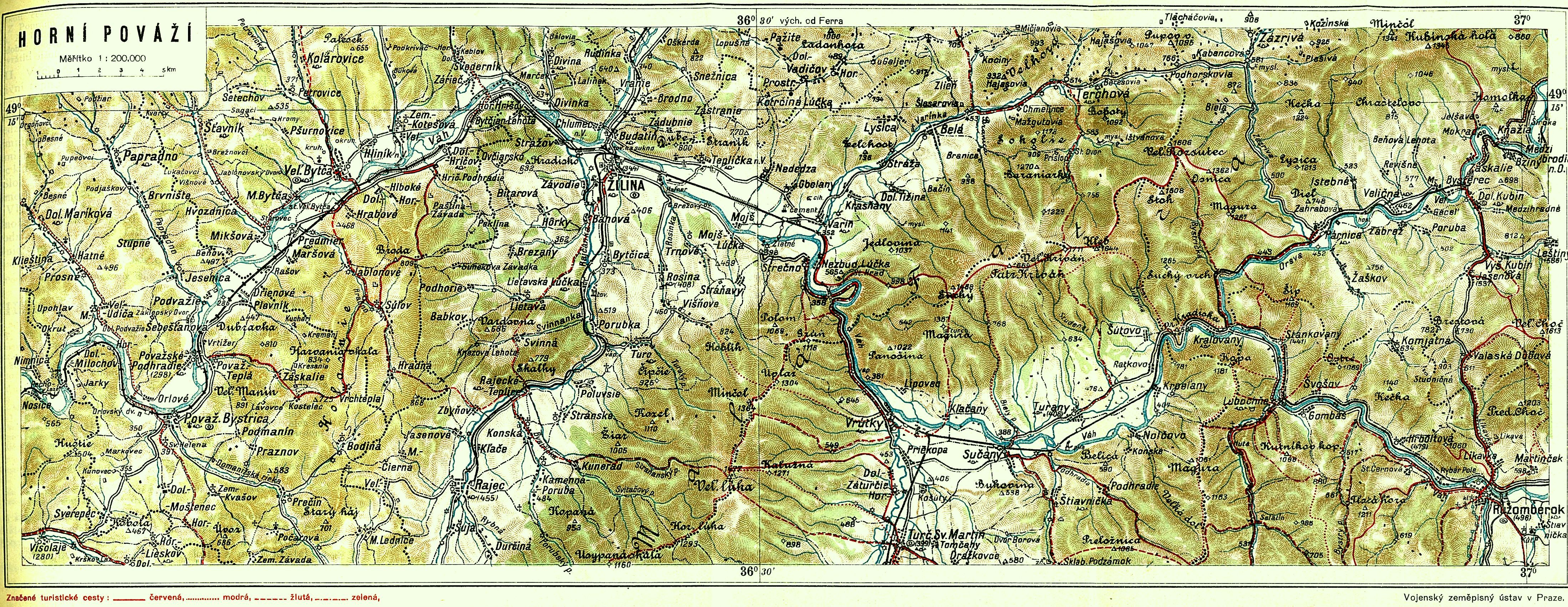 Map of upper part of the Váh River basin in 1933. The descriptions are in Czech.